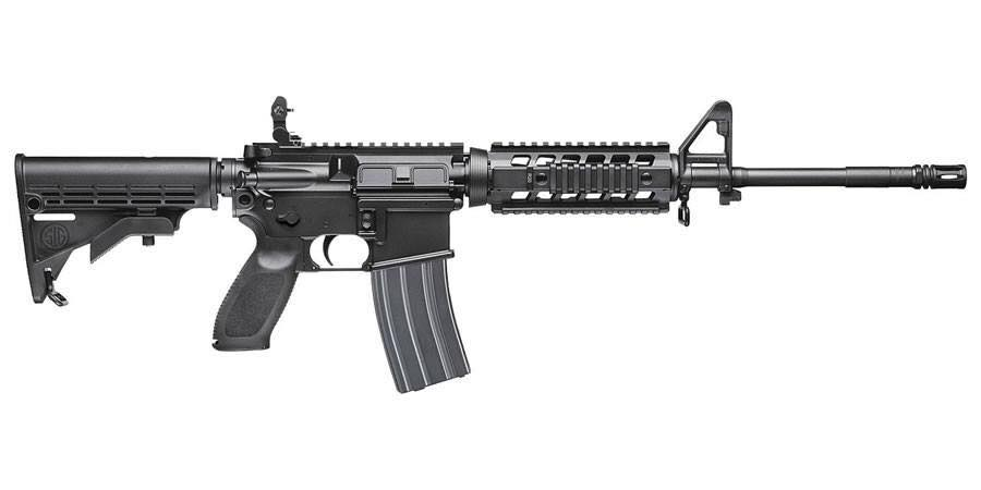 It represents one of Sig Sauer's rifle used in different countries' militaries